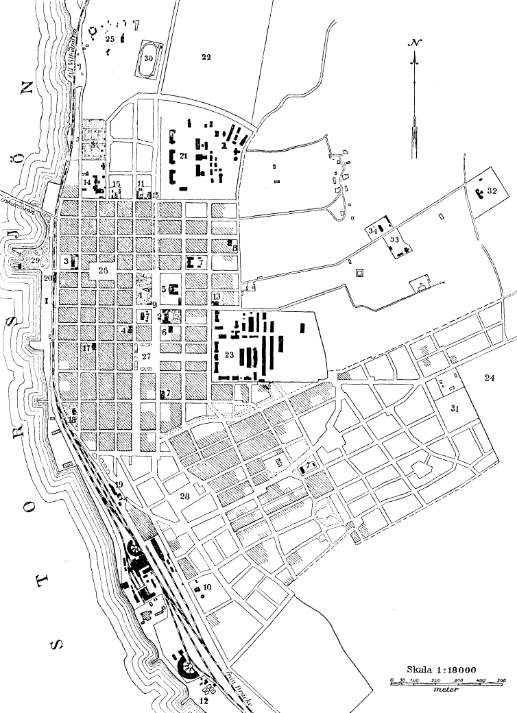 City map Östersund, Sweden, about 1922 1. Kyrka. - 2. Badhus. - 3. Landshöfdingresidens. - 4. Postkontor och telegrafstation. - 5. Högre allmänt läroverk. - 6. Läroverk för flickor. - 7. Folkskolor. - 8. Småskoleseminarium. - 9. Jämtlands bibliotek. - 10. Gasverk. - 11. Elektricitetsverk. - 12. Vattenledningsverk. - 13. Brandstation. - 14. Länslasarett. - 15. Epidemisjukhus. - 16. Kronohäkte. - 17. Riksbankens kontor - 18. Tullhus. - 19. Järnvägsstation. - 20. Västra järnvägsstationen. - 21. Jämtlands fältjägarregementes kasern - 22. Samma regementes öfningsfält. - 23. Norrlands artilleriregementes kasern. - 24. Artilleriregementets övningsfält. - 25. Fornvallen Jamtli. - 26. Stortorget. - 27. Nytorget. - 28. Södertorg. - 29. Badhusparken. - 30. Idrottplats - 31. begravningsplats - 32. Sollidens sanatorium - 33. Barnhus - 34. Ålderdomshem